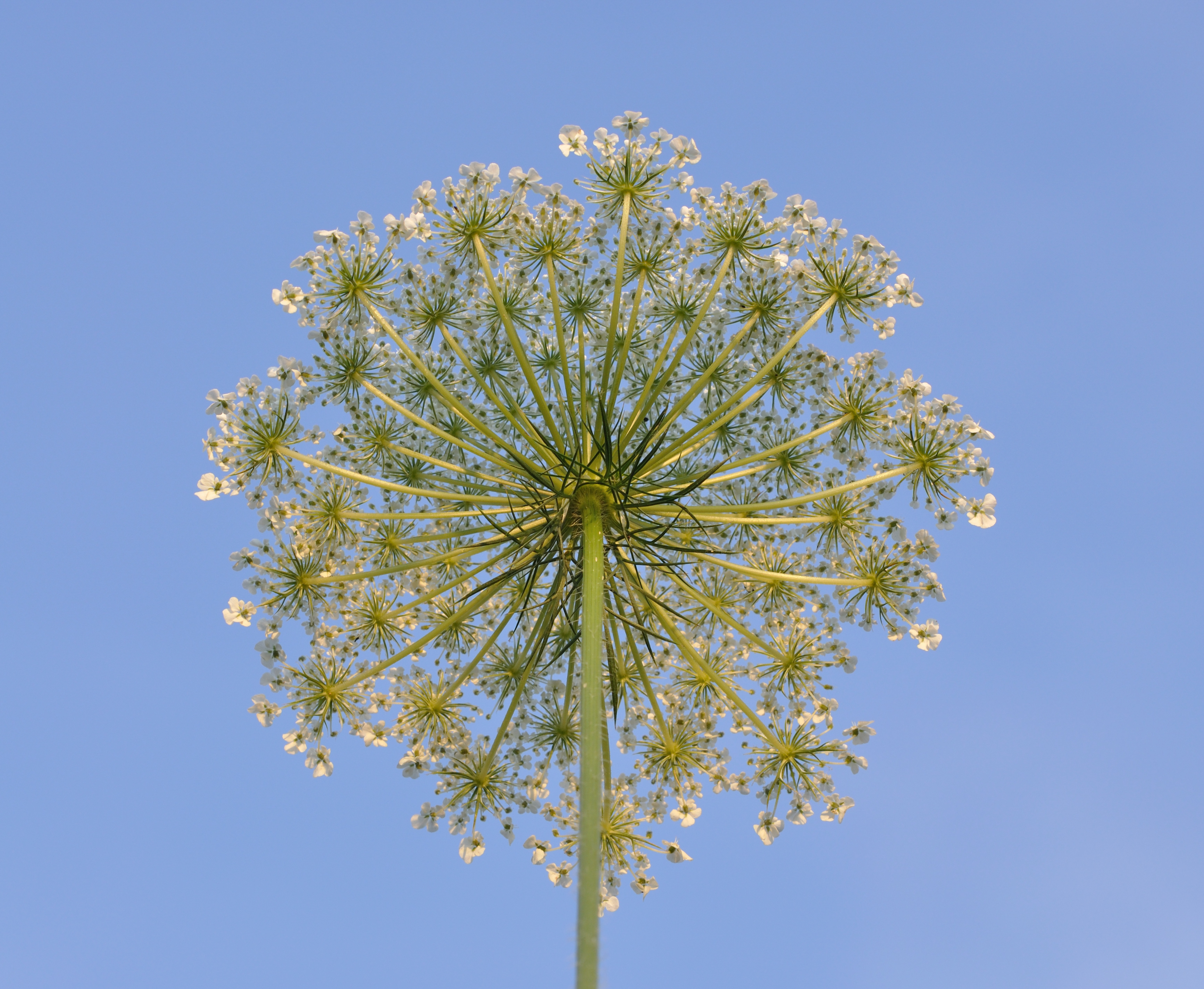 Underside of a wild carrot (Daucus carota subsp. carota) inflorescence, a compound umbel in the Kätcheslachpark, Frankfurt, Germany